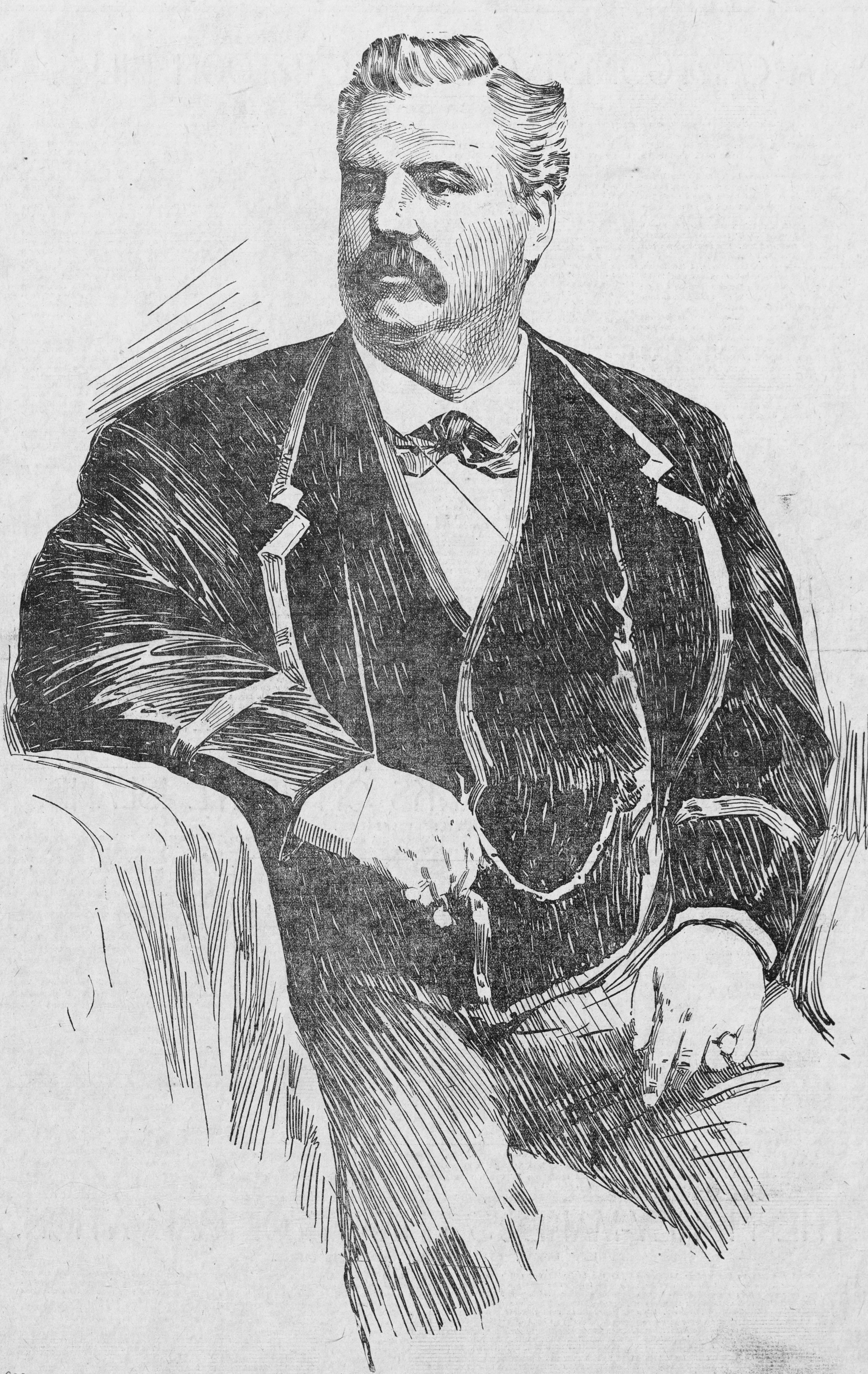 Illustration of William F. Howe, notorious American trial lawyer